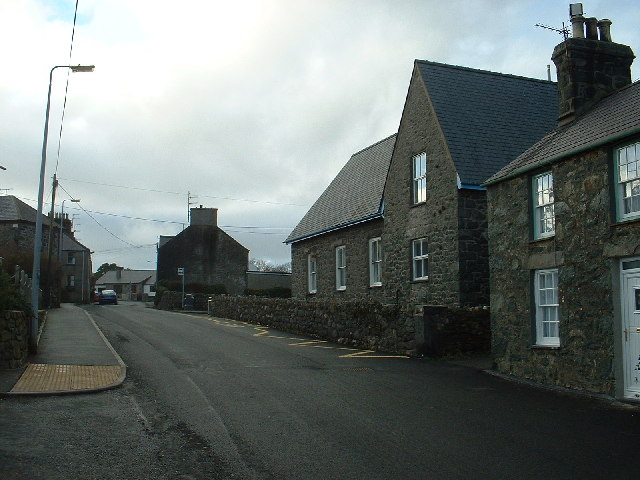 Abererch School.